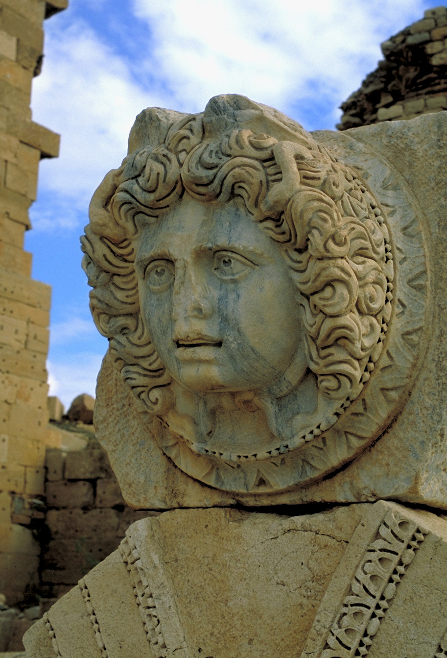 Gorgon head sculpture in the the Severii Forum of Leptis Magna, the well preserved ancient city along the Mediterranean Sea, located 120 km Est of Tripoli, Libya.